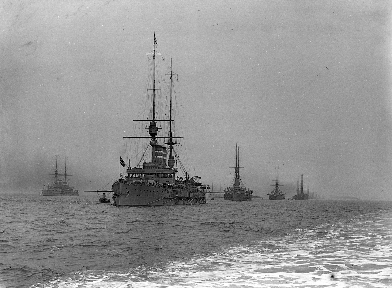 Reproduction ID: P00025 Maker: Unknown Date: June - July 1909 Materials: Gelatine dry plate Henley Collection